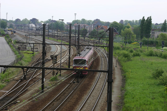 Iron Rhine, railway between Antwerpen and Mönchengladbach